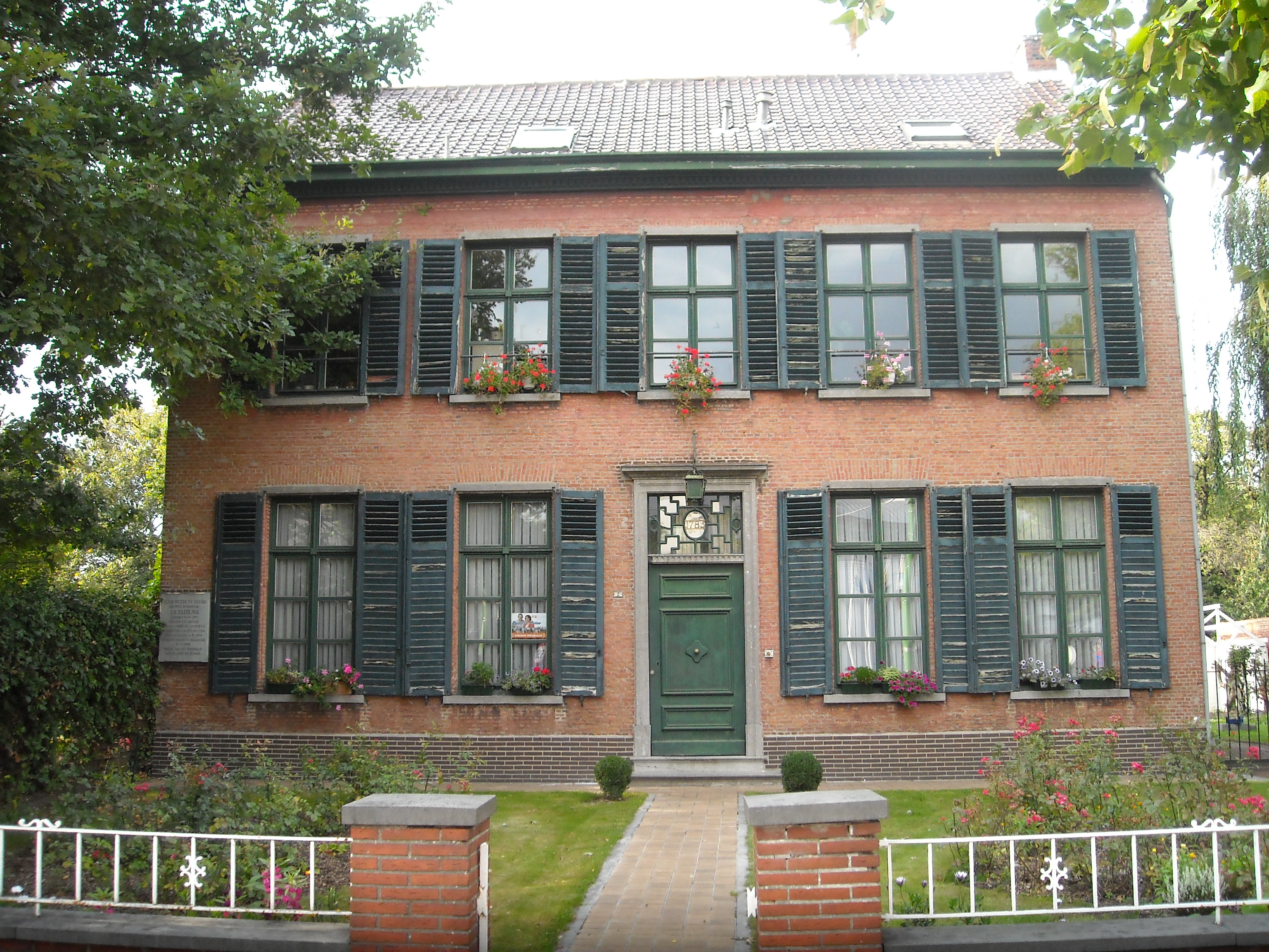 House of the type 'herenhuis', 1785. Polderstraat 2, Zwijndrecht, BE. Former home of J.B. Tassyns, a key local figure in the resistance against the occupation of the French 'Sansculottes' in the late 18th century.